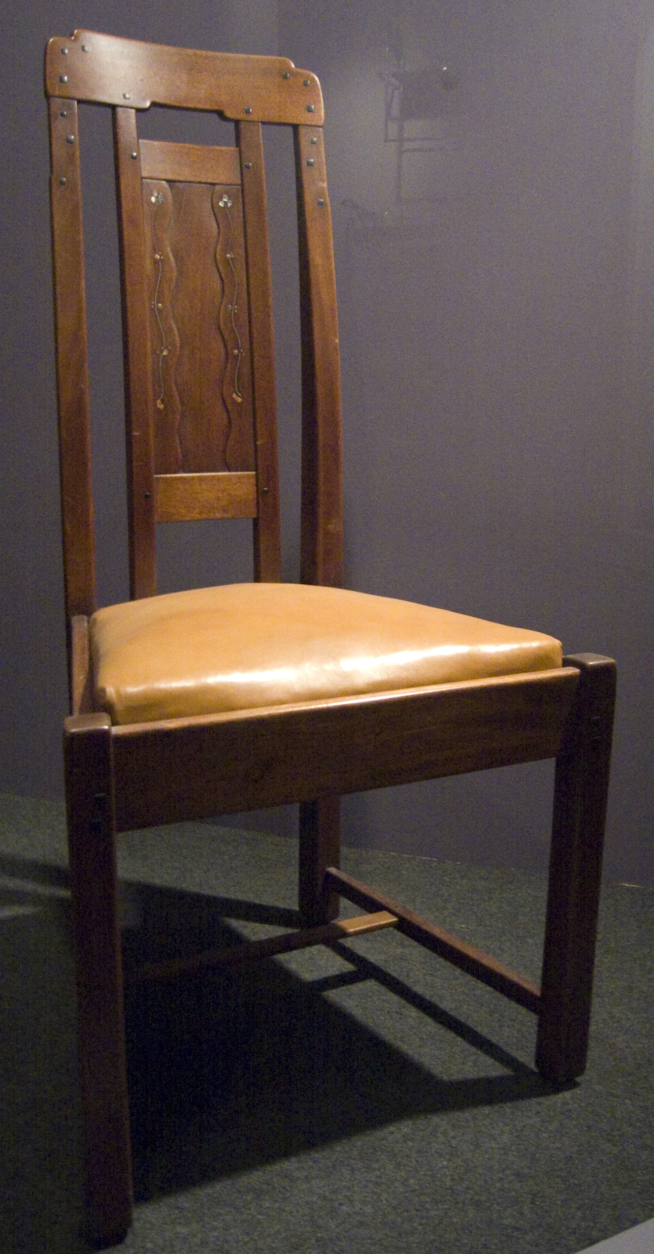 Charles Sumner (American 1868-1957) and Henry Mather Greene (1870-1954). Side Chair, ca. 1907. Honduras mahogany and ebony with inlay of silver, abalone, copper, pewter, and exotic woods. Brooklyn Museum, Designated Purchase Fund, 84.66.